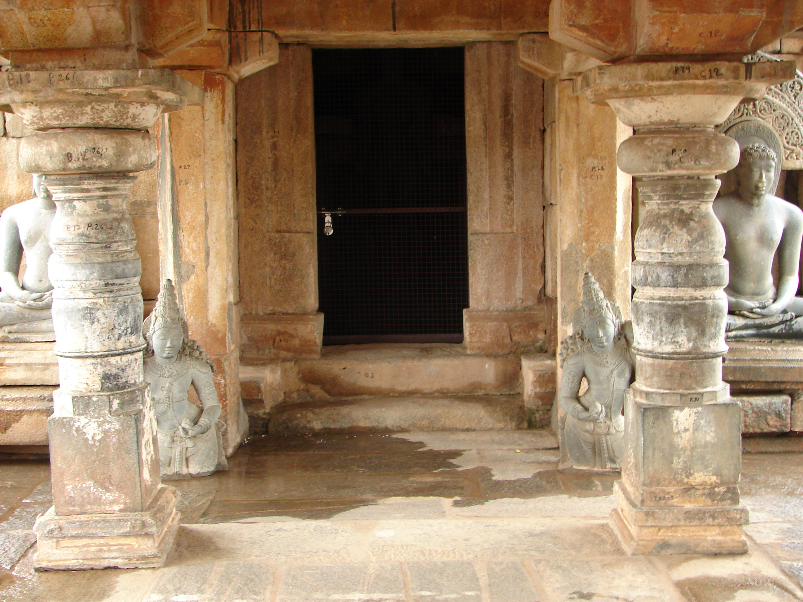 This photograph was taken by me at the Panchakuta Basadi at Kambadahalli, Mandya district, Karnataka state, India. Kambadahalli was important Jain religious center during the 9th-10th century. This monument was built around 900 A.D. during the reign of the Western Ganga dynasty and is considered a fine example of Dravidian architecture.